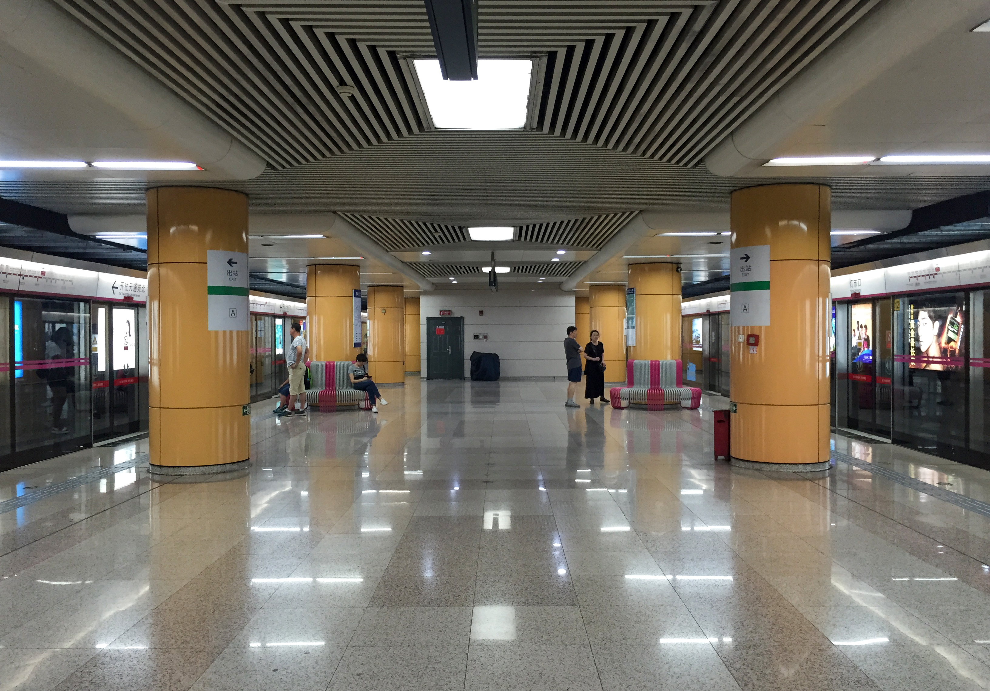 A shade of... Imitation gold.